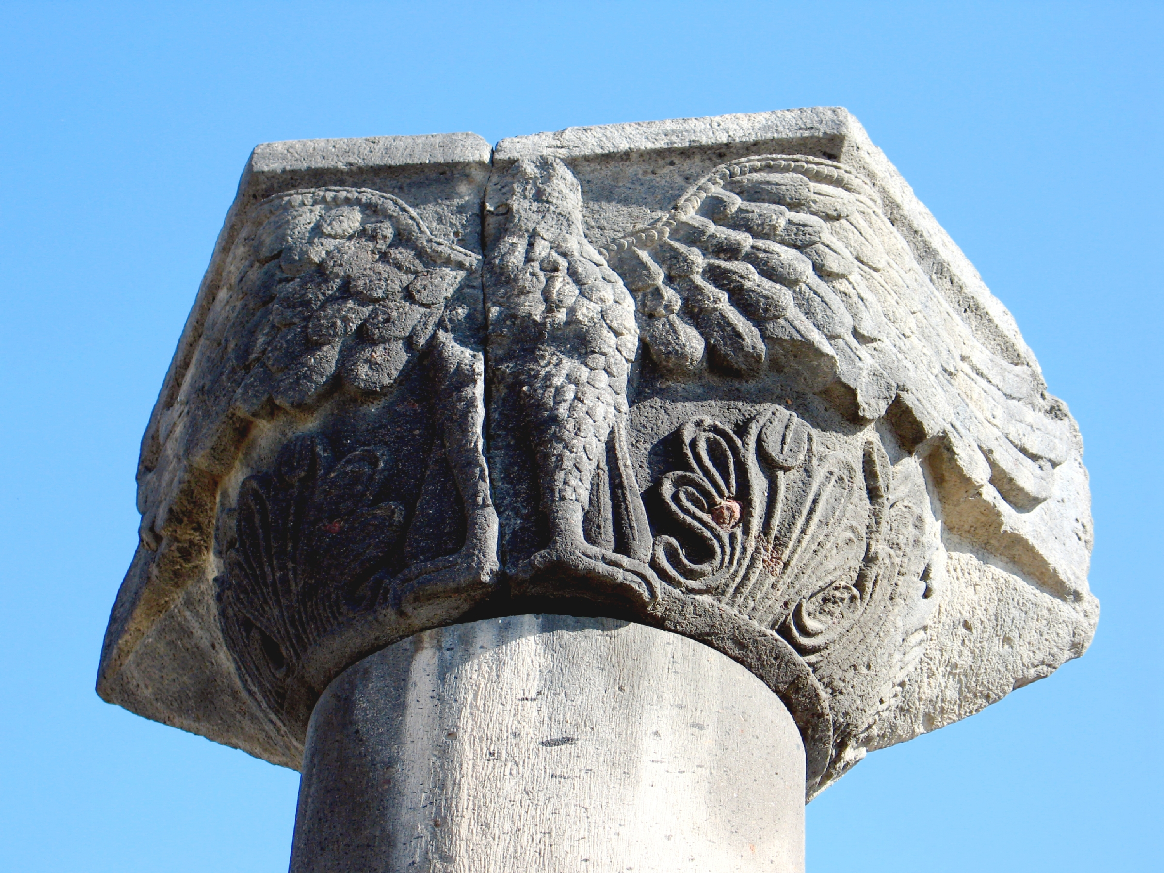 ԵԿԵՂԵՑԱԿԱՆ ՀԱՄԱԼԻՐ՝ ՎԱՂԱՐՇԱՊԱՏԻ Ս. ԳՐԻԳՈՐ (ԶՎԱՐԹՆՈՑ) 2/13